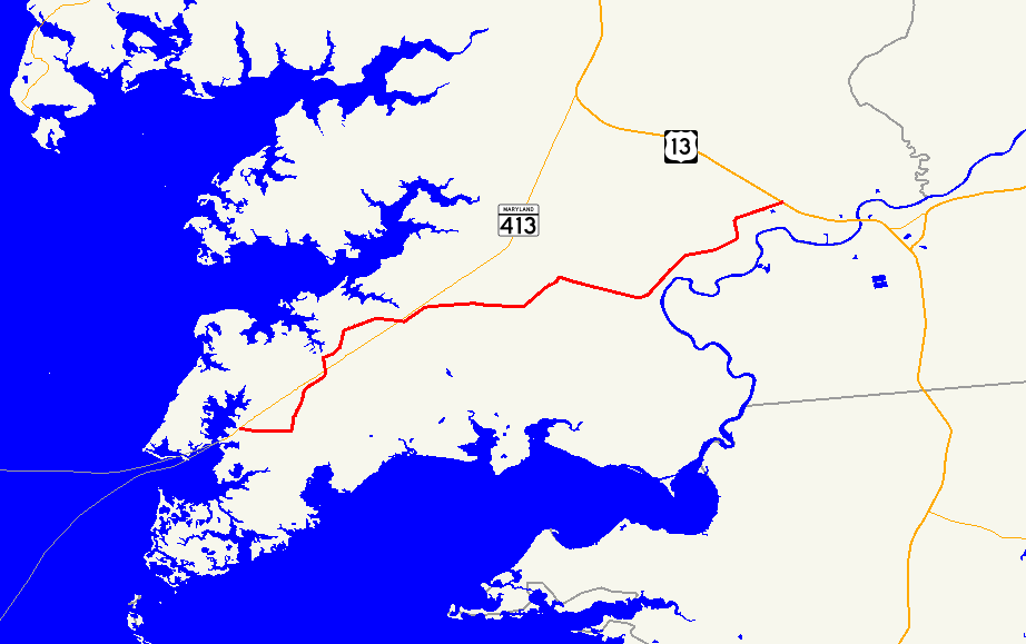 Map of Maryland Route 667